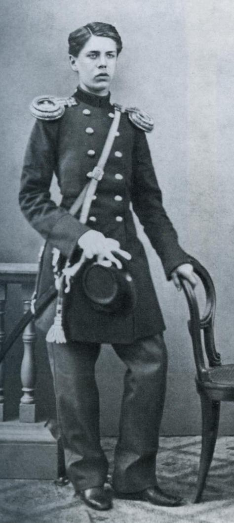 19th century photograph of Modest Musorgsky Young Mussorgsky as a cadet in the Preobrazhensky Regiment of the Imperial Guards.